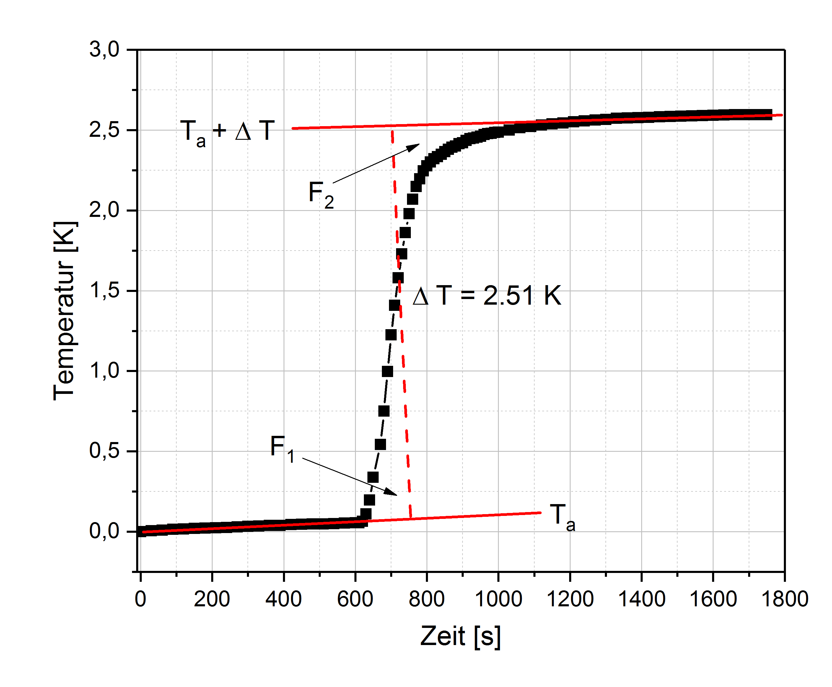 Thermogramm eines nicht ideal adiabatischen Kalorimeters.